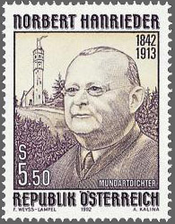 Norbert Hanrieder (1842-1913), writer and poet from Kollerschlag, Upper Austria